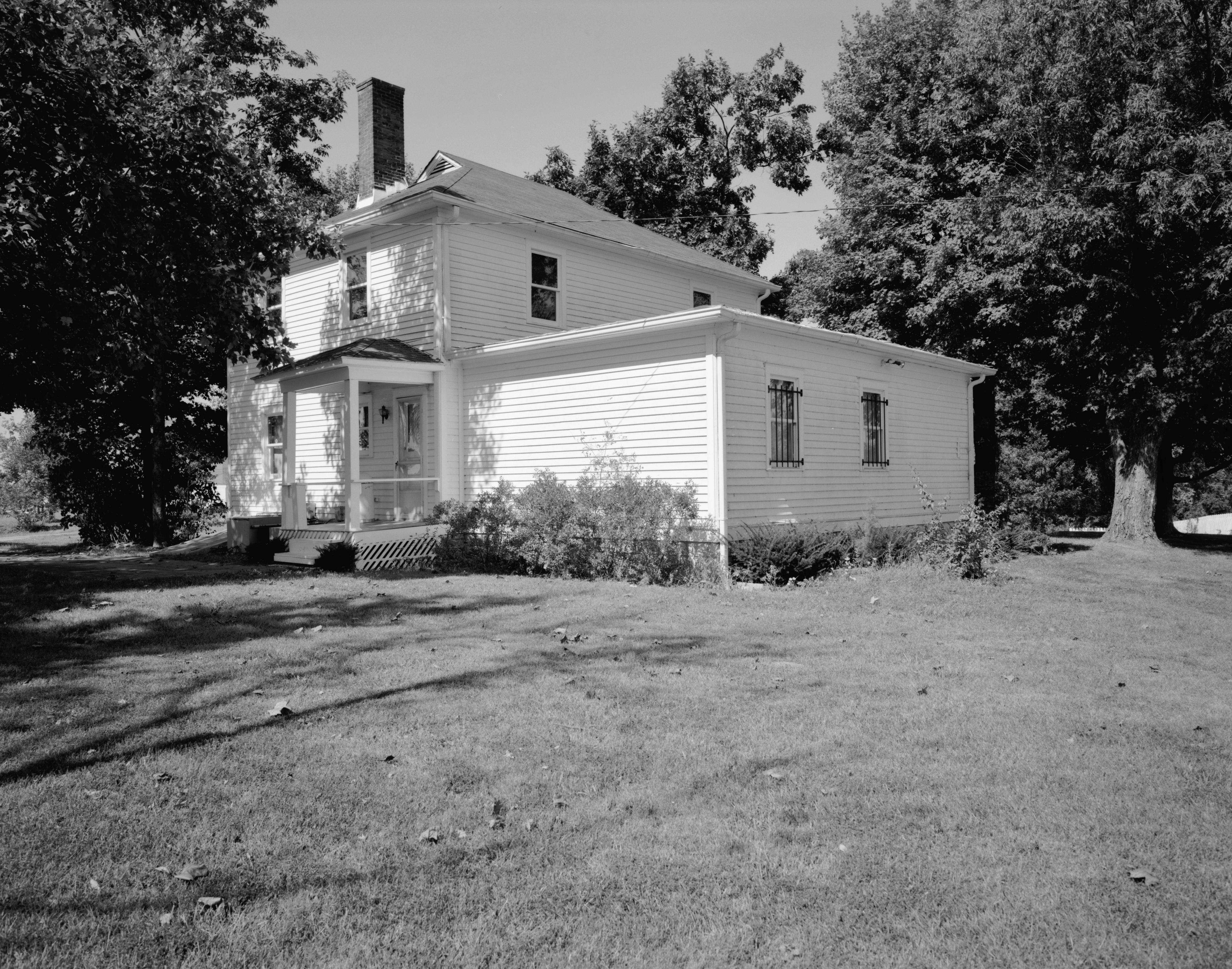 Western side of the Whitney M. Young, Jr. Birthplace, located along U.S. Route 60 southwest of Simpsonville in Shelby County, Kentucky, United States. Today operated as a museum, it is a National Historic Landmark.